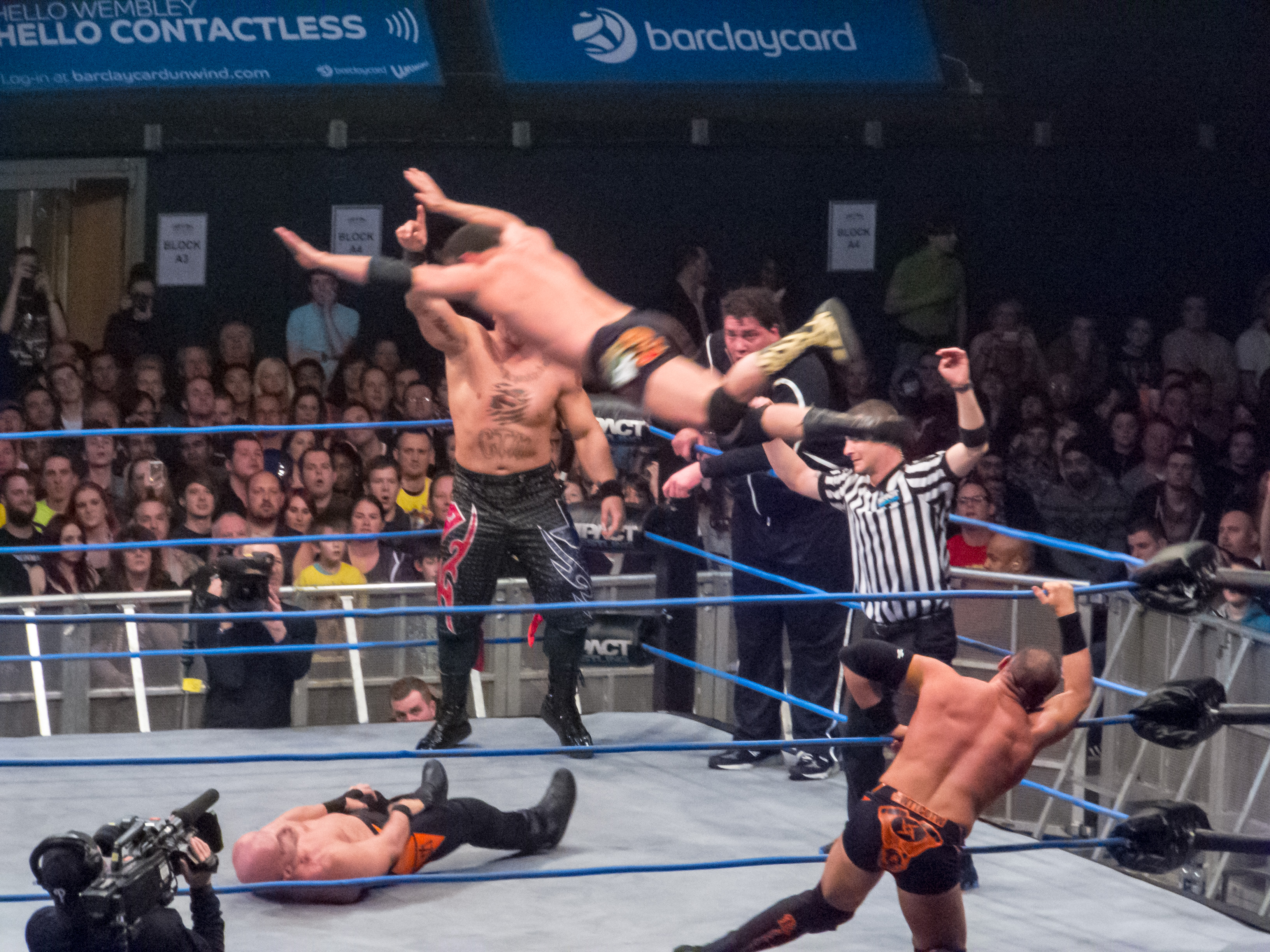 Chavo Guerrero frog splashes Christopher Daniels at the Impact! TV Tapings in Wembley, England on January 26, 2013. Chavo's partner Hernandez is in the background while Daniels' partner Kazarian is in the foreground.